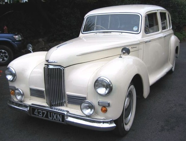 Humber Pullman MkII (DVLA) manufactured 1949, 4080 cc